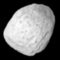 Janus, moon of Saturn.